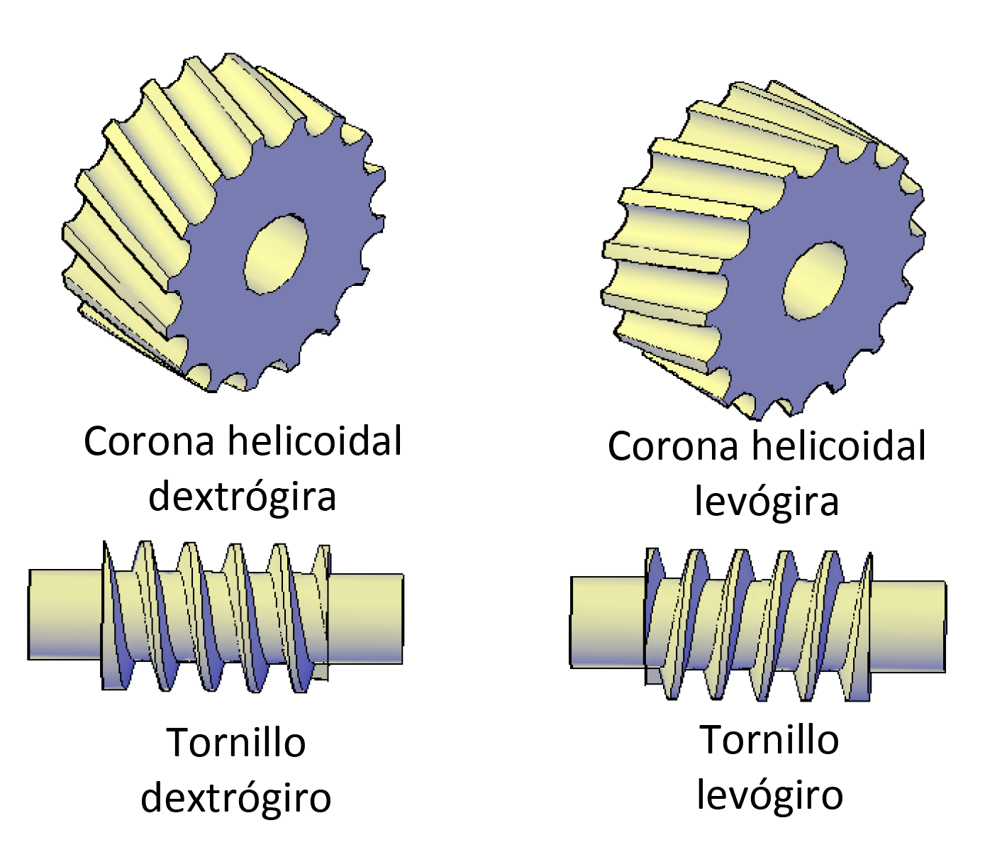 Helical and worm handedness